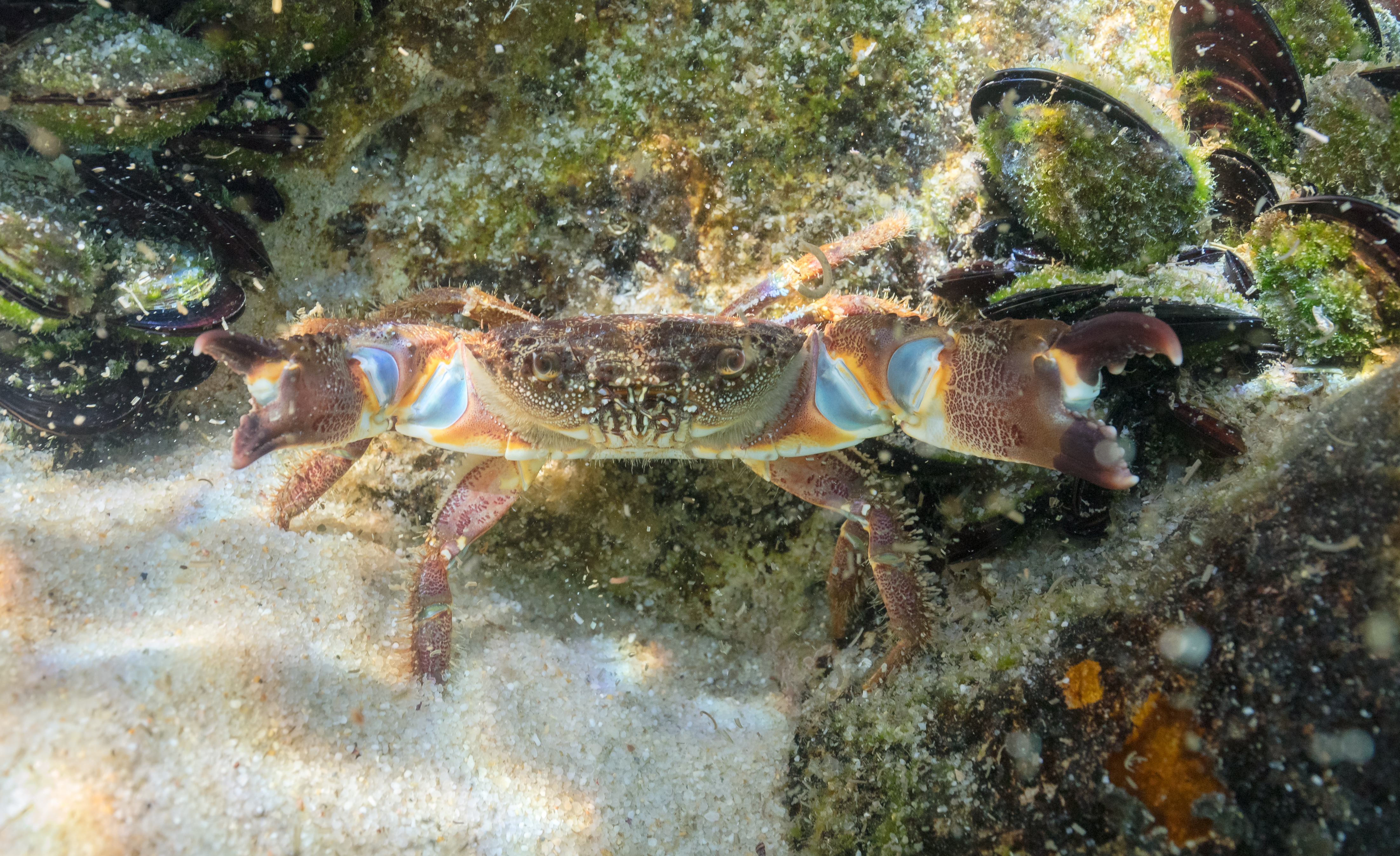 Warty crab (Eriphia verrucosa) in defying position, Setúbal, Portugal